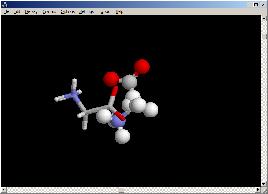 Molecular CAD with Rasmol software